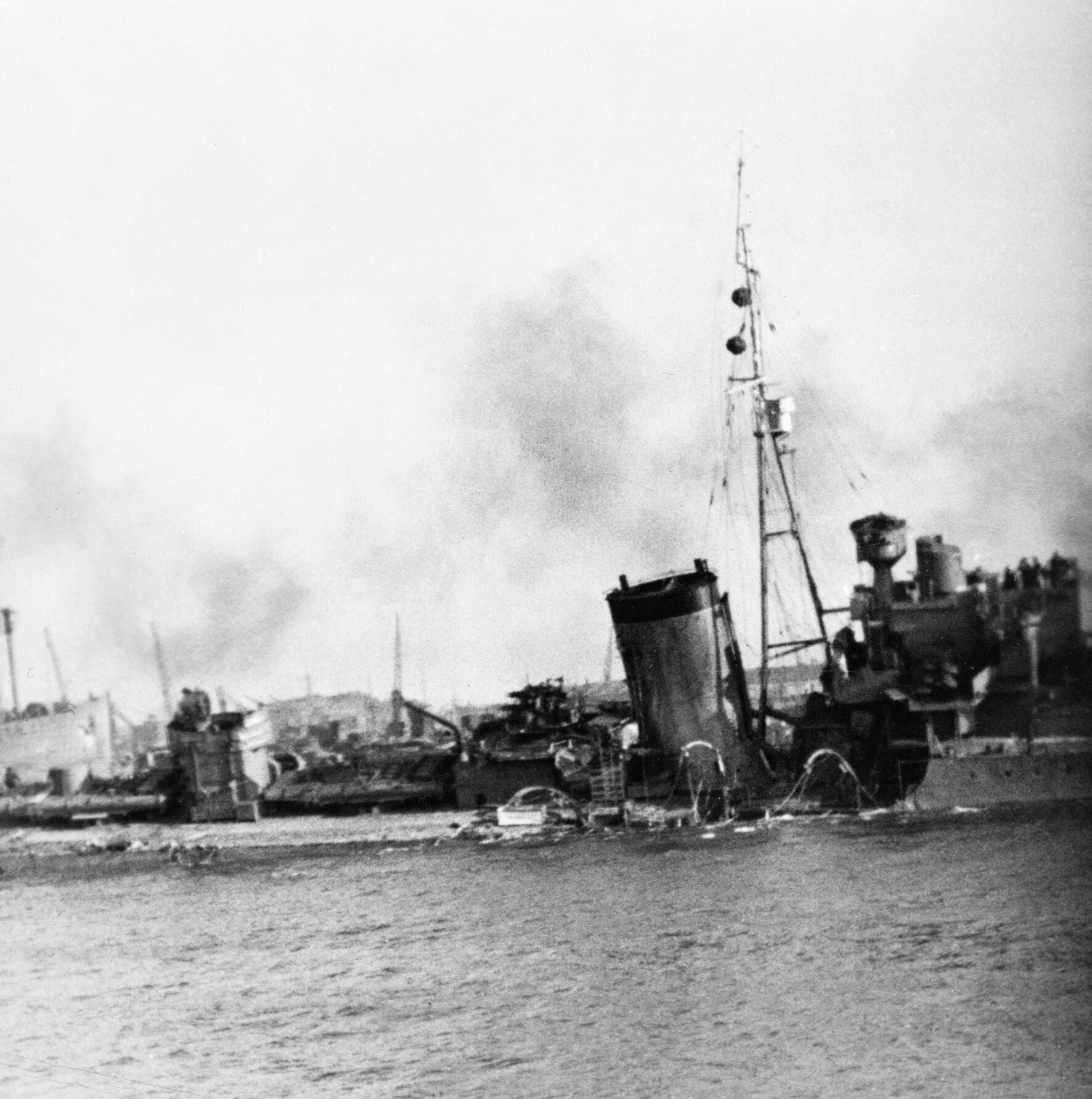 Admiral of the Fleet Earl Mountbatten of Burma Ships in which Mountbatten served: Detailed view of the midships section of HMS KELLY returning to the Tyne after being severely damaged by a German S-Boat off the Dutch coast.